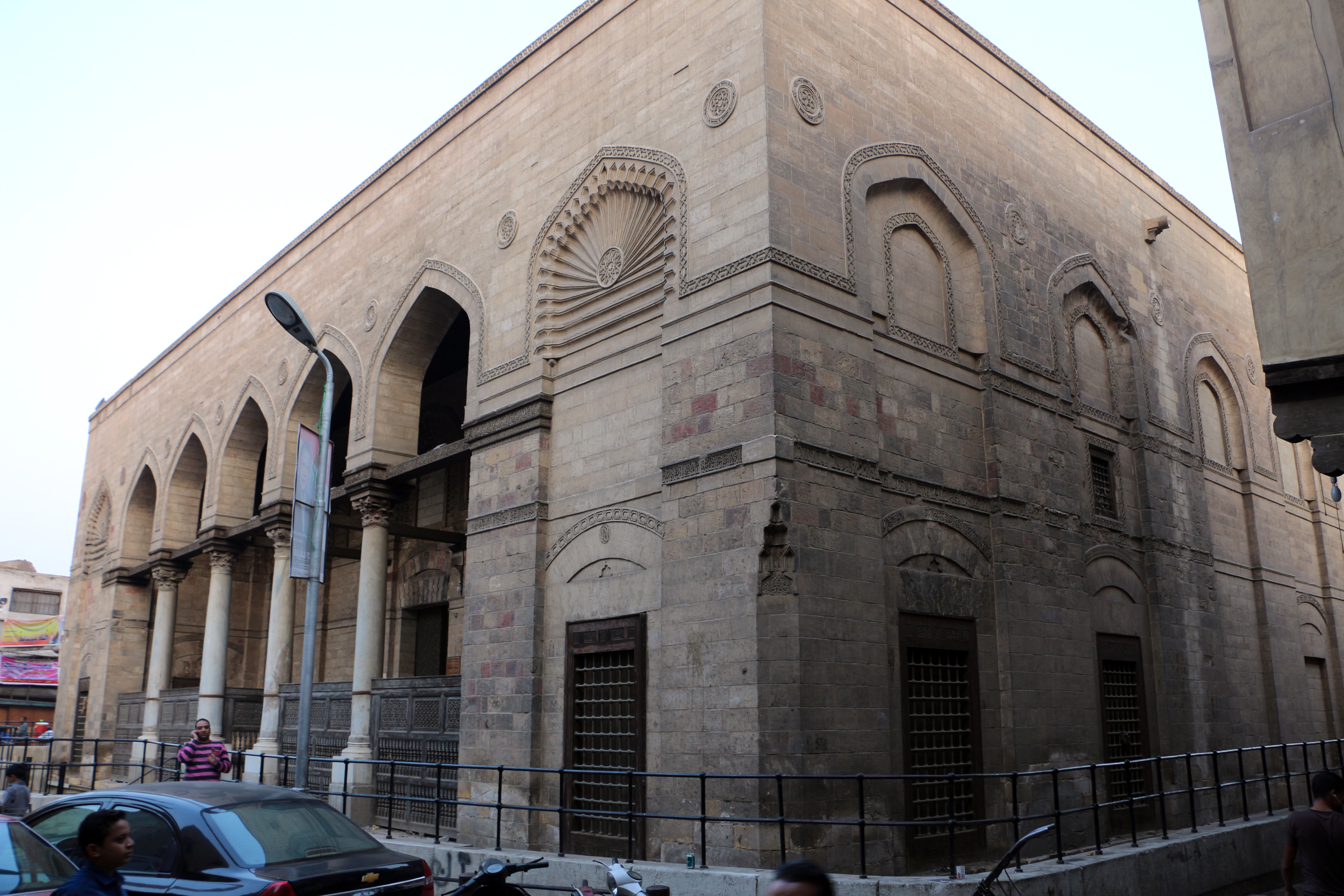 Al-Salih Tala'i Mosque